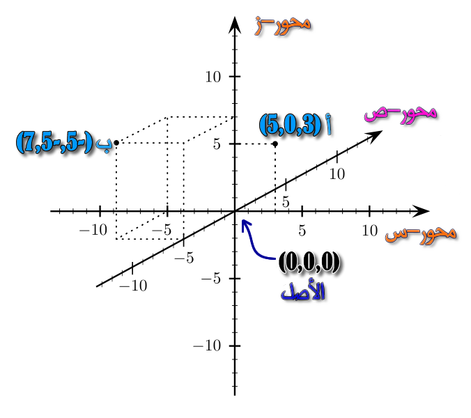 3D Cartesian Coordinates